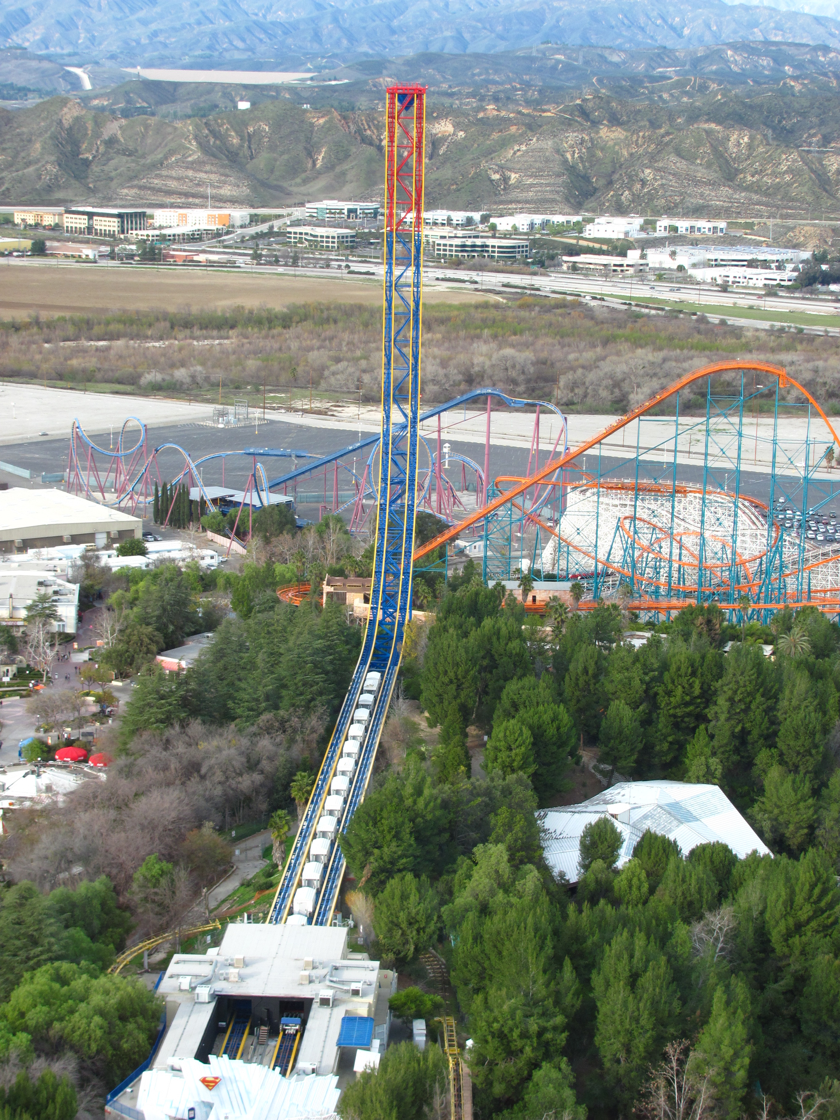 Superman: Escape from Krypton at Six Flags Magic Mountain.